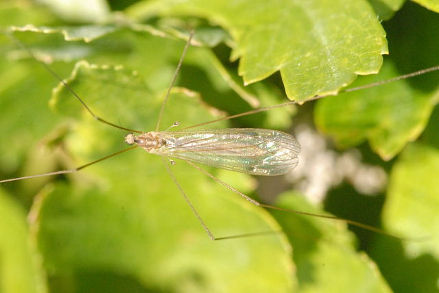 Dicranota claripennis from Commanster, Belgian High Ardennes .